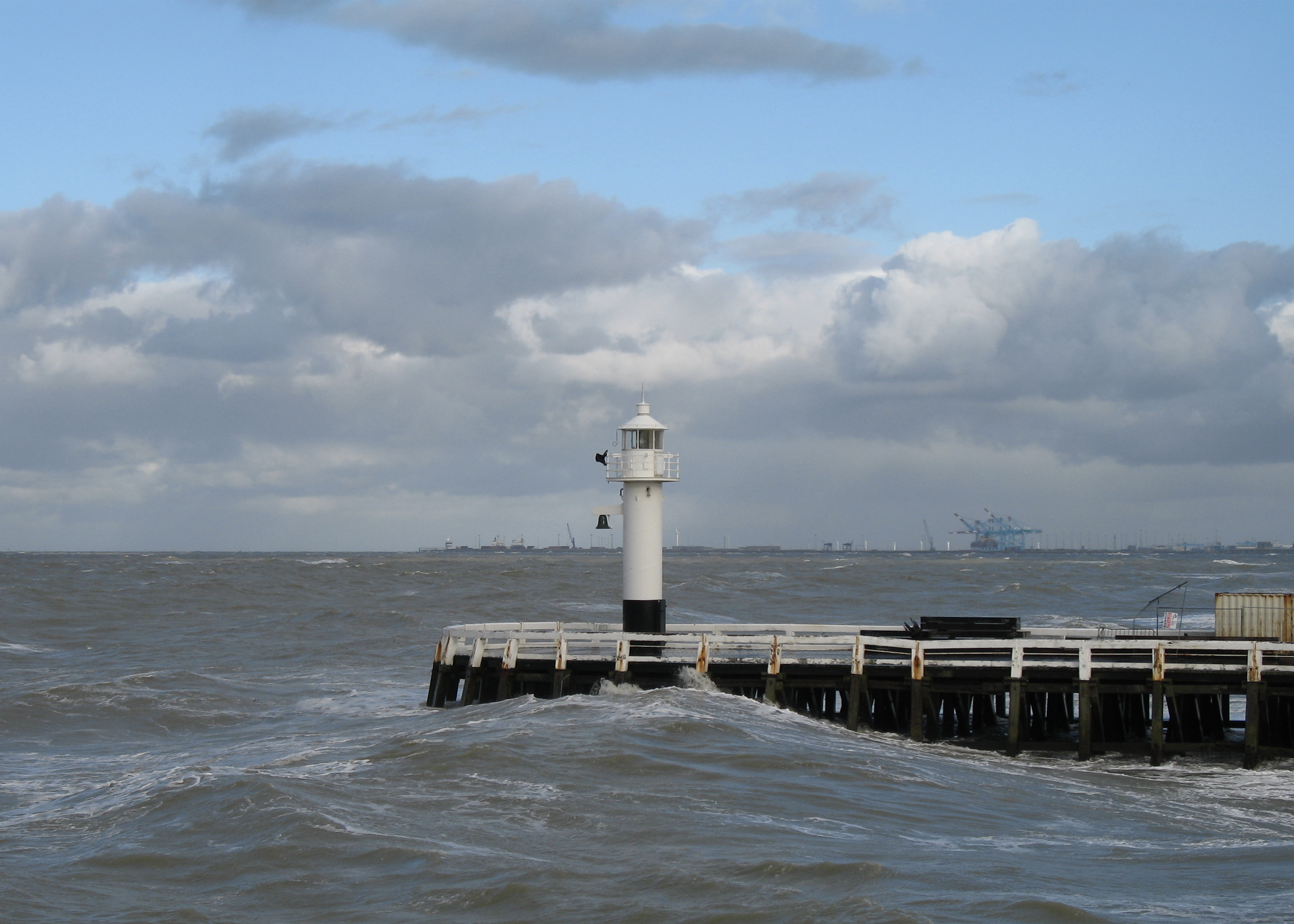 Blankenberge (province of West Flanders, Belgium): the eastern jetty with the harbour entrance light